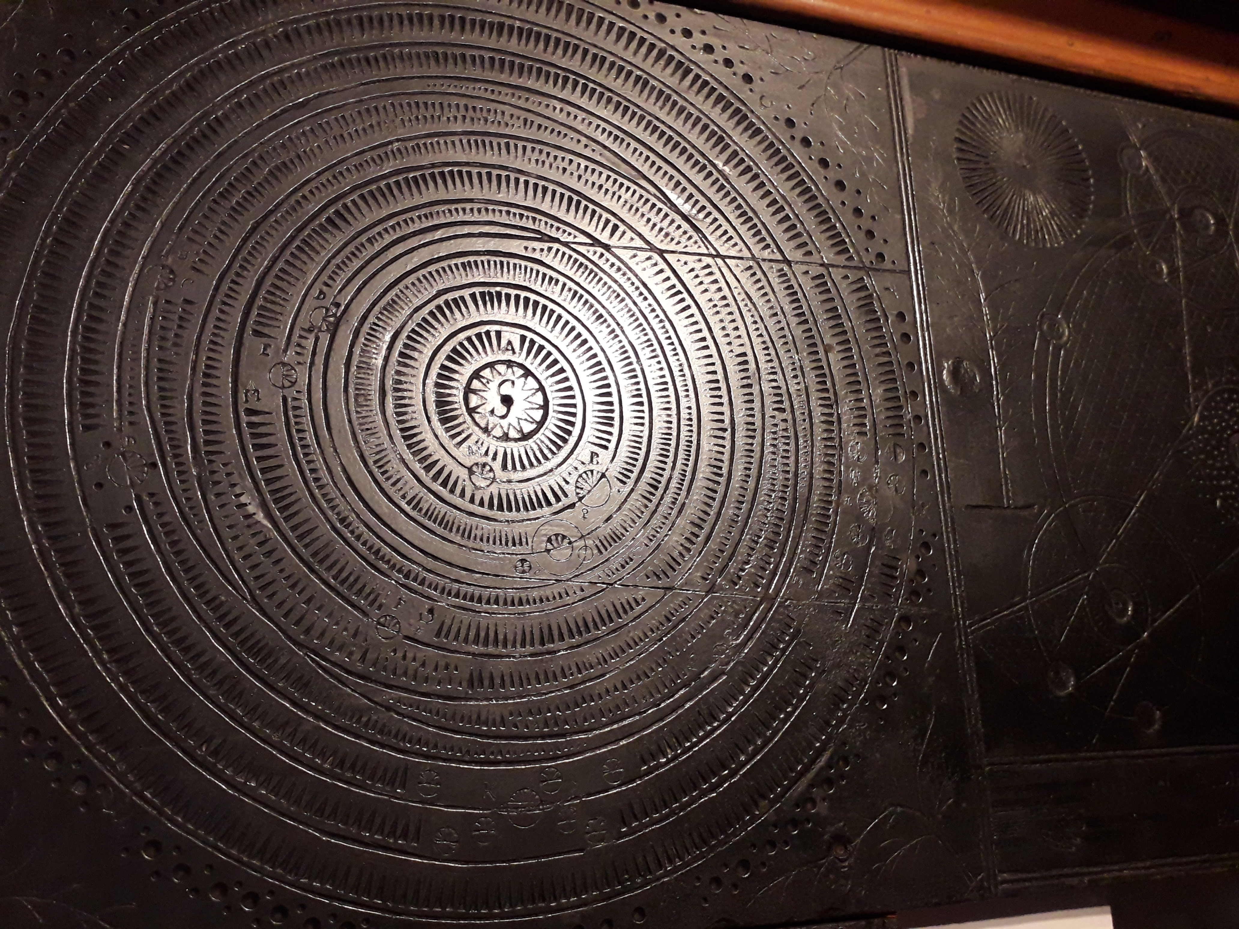 Part of Astronomical Carved Fire Surround. 1837. (Arfonwyson) Bryn Twrw. (Gwynedd, Wales)